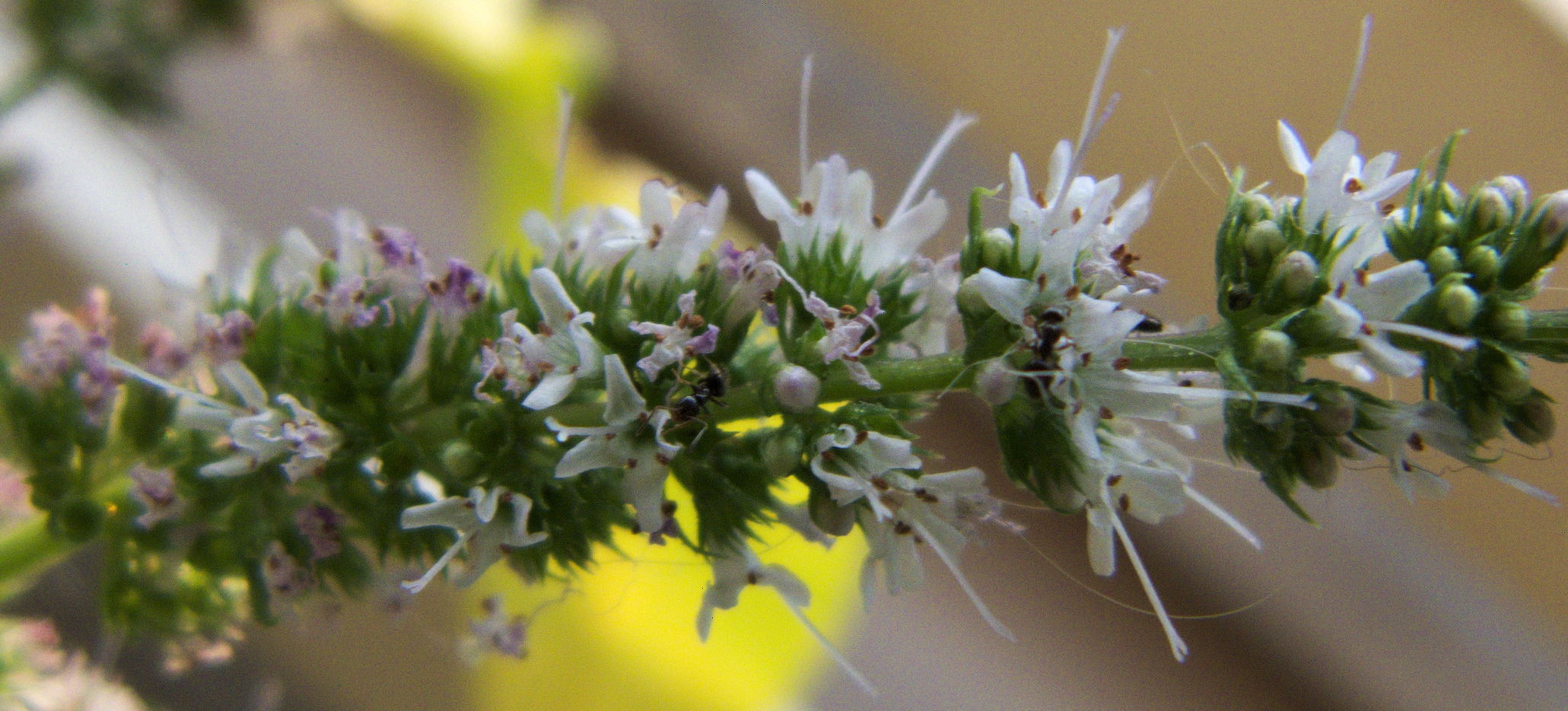 ants on spearmint flowers